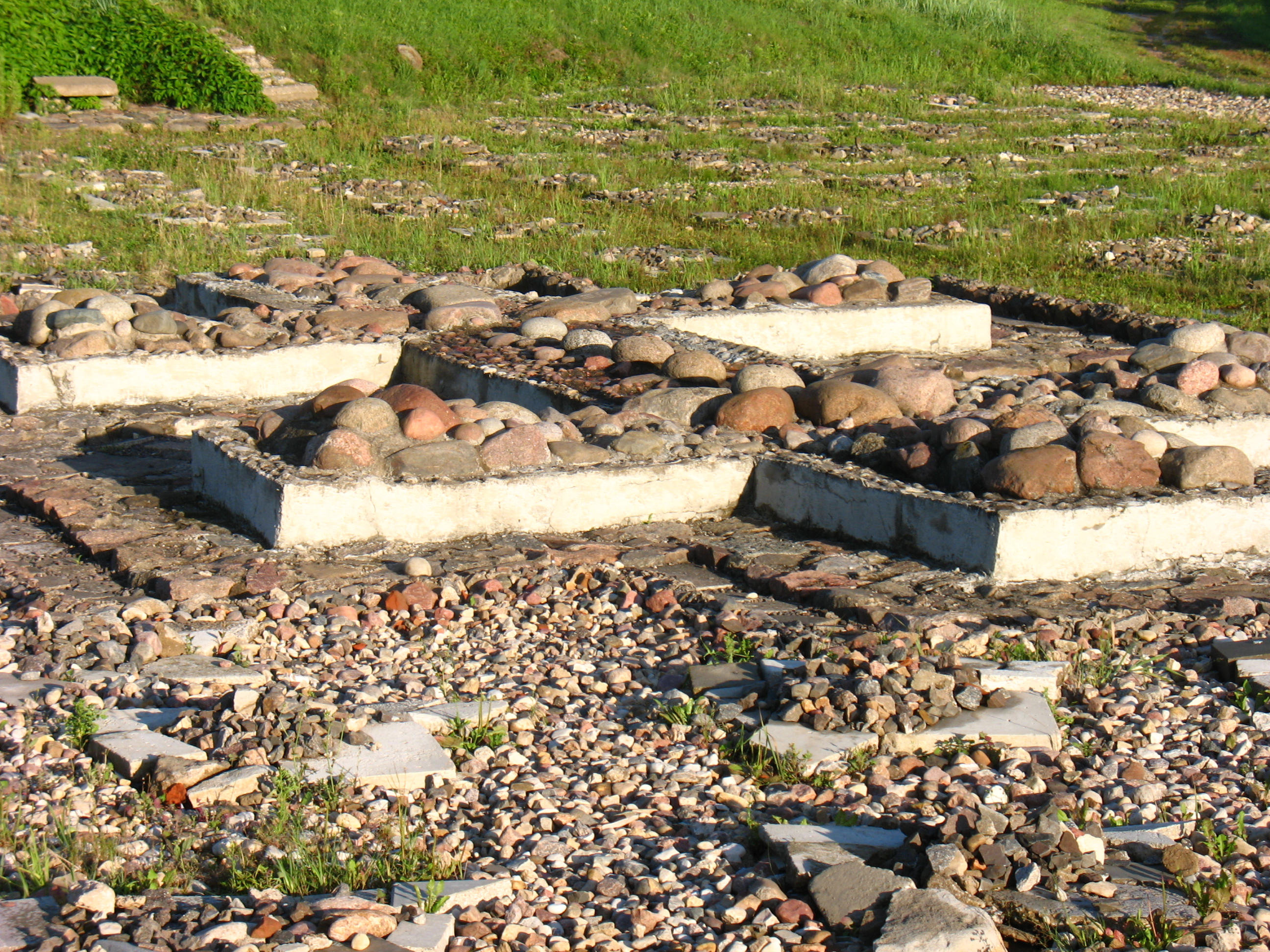 Atminimo laukas, Jonava